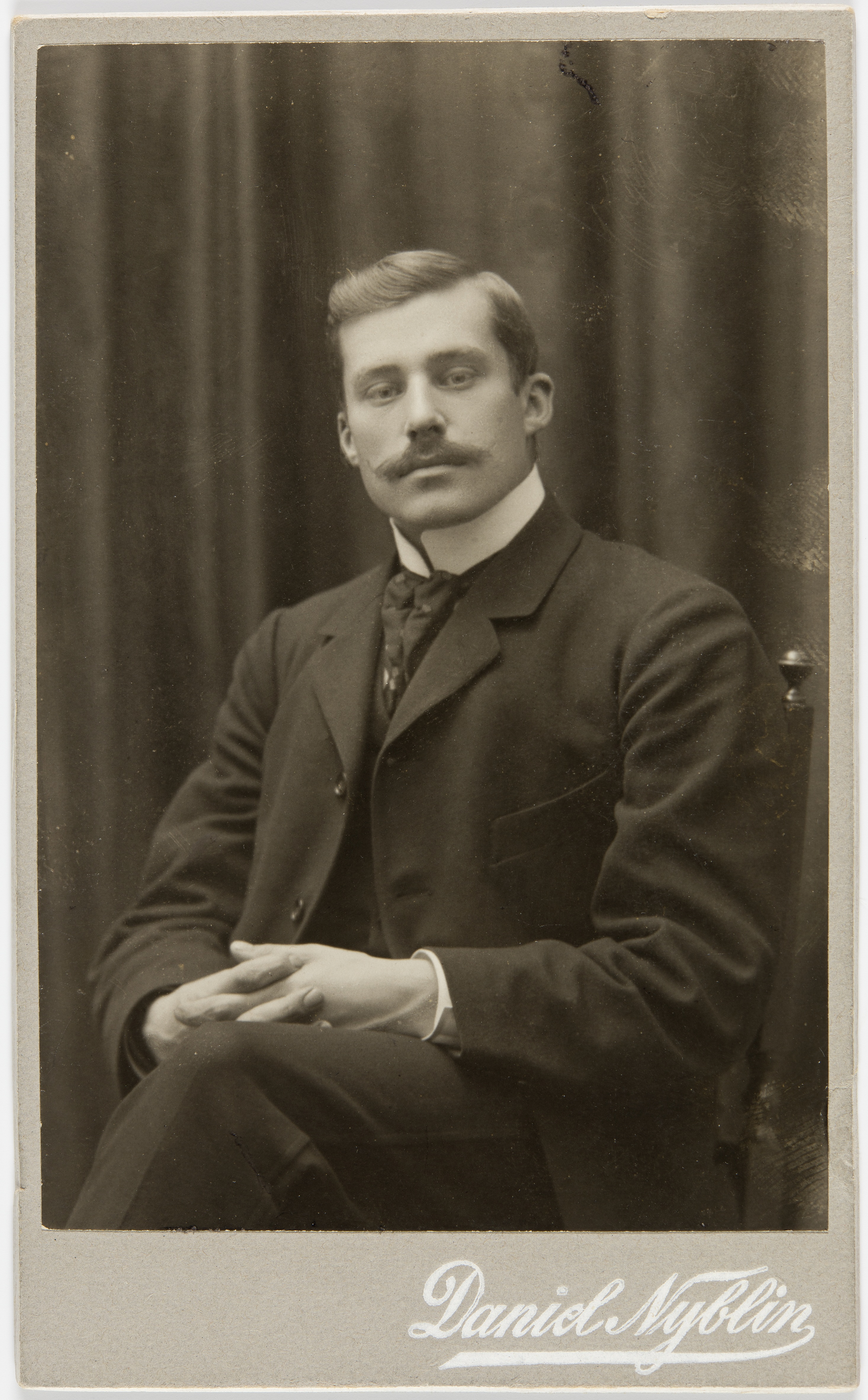 Photograph of the Finnish businessman Leopold Lerche (1877–1927).